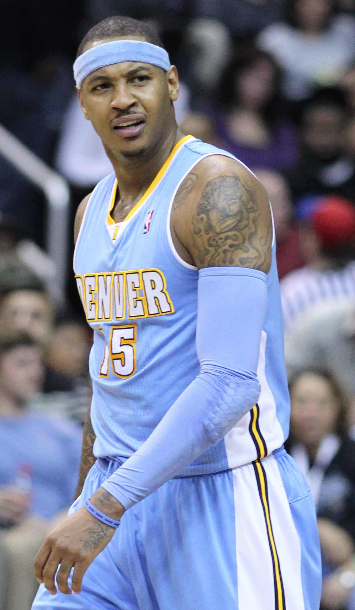 Washington Wizards v/s Denver Nuggets January 25, 2011